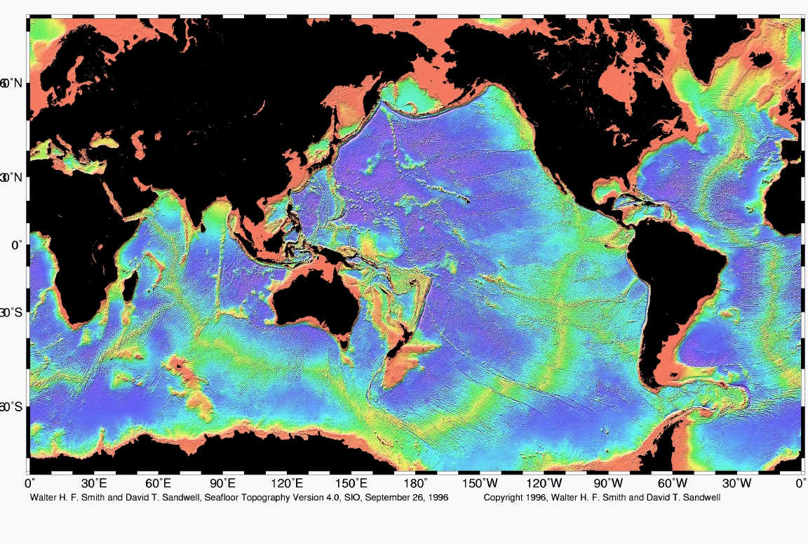 Topographic map of global ocean made created from combined data taken by Geosat and ERS-1 satellites.